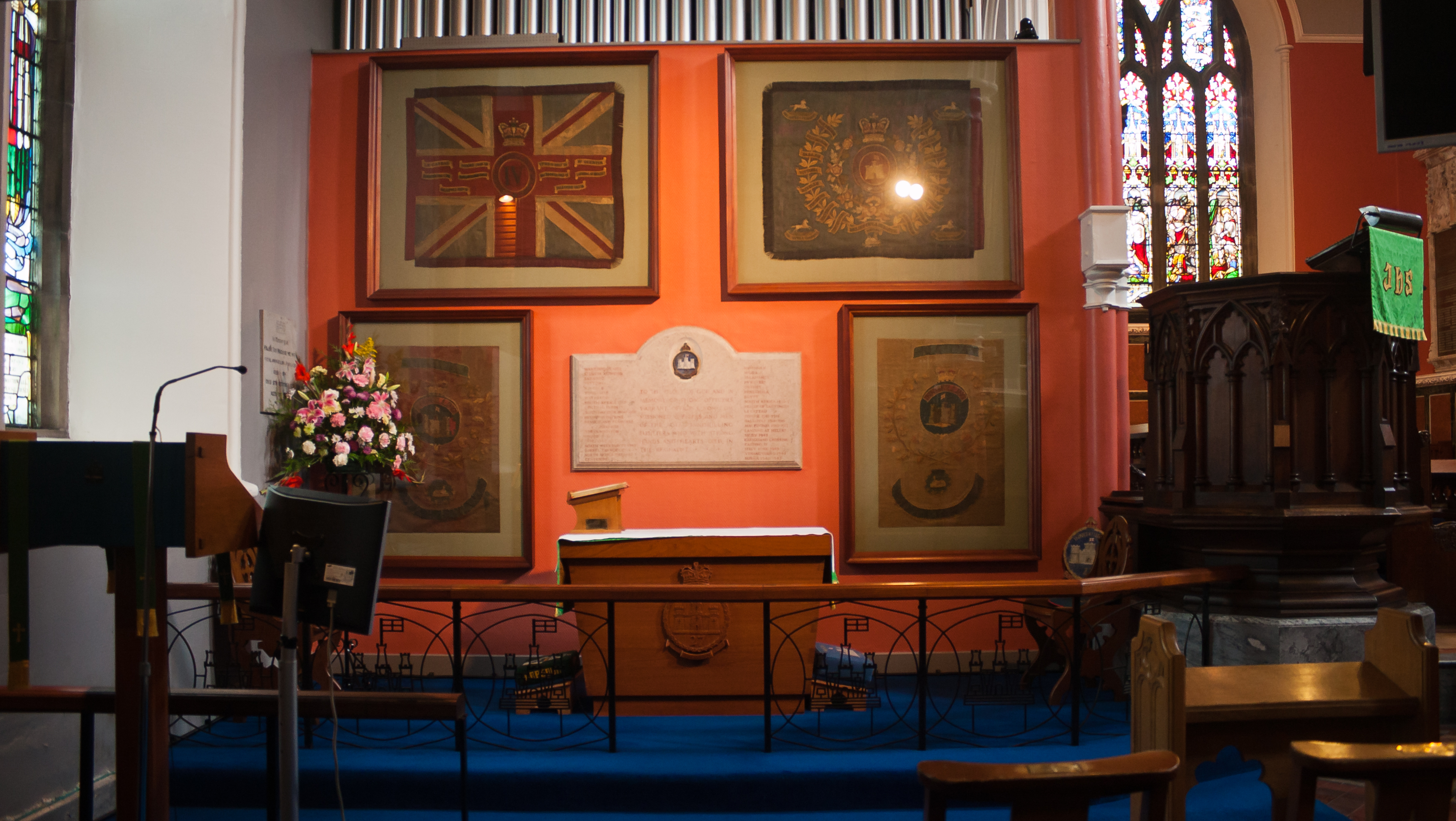 Altar of the regimental chapel in the north aisle, decorated with multiple regimental colors. The chapel was designed by John Storie in 1970 and is used annually for a service for the Regimental Association.